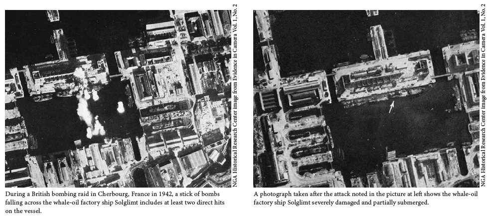 Photo on the left: During a British bombing raid in Cherbourg, France in 1942, a stick of bombs falling across the whale-oil factory ship Solglimt includes at least two direct hits on the vessel. Photo on the right: A photograph taken after the attack noted in the picture at left shows the whale-oil factory ship Solglimt severely damaged and partially submerged.